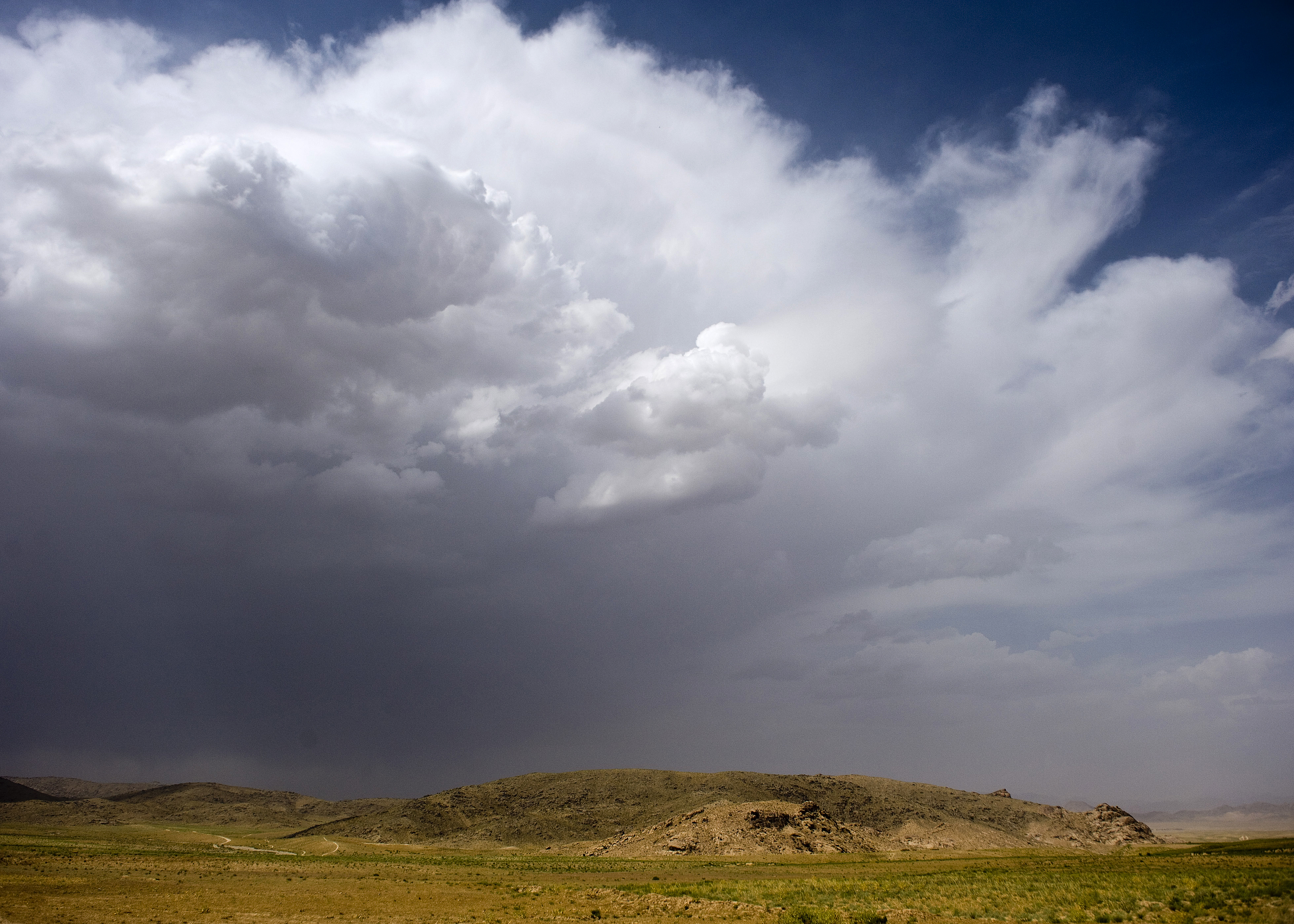 Clouds move in over a terrain feature, where suspected enemy spotters were observed, during a village clearing operation in northern Khakrez District, May 25, 2011, Kandahar province, Afghanistan. Operations such as these, conducted by Afghan Commandos with the Afghan National Army’s 3rd Commando Kandak and U.S. Navy SEALs with Special Operations Task Force–South, help legitimize the government of Afghanistan and hinder Taliban influence in the area. Also assisting during the operation were members of the Afghan national police and Ghorak District Chief of Police Alam Guhl.